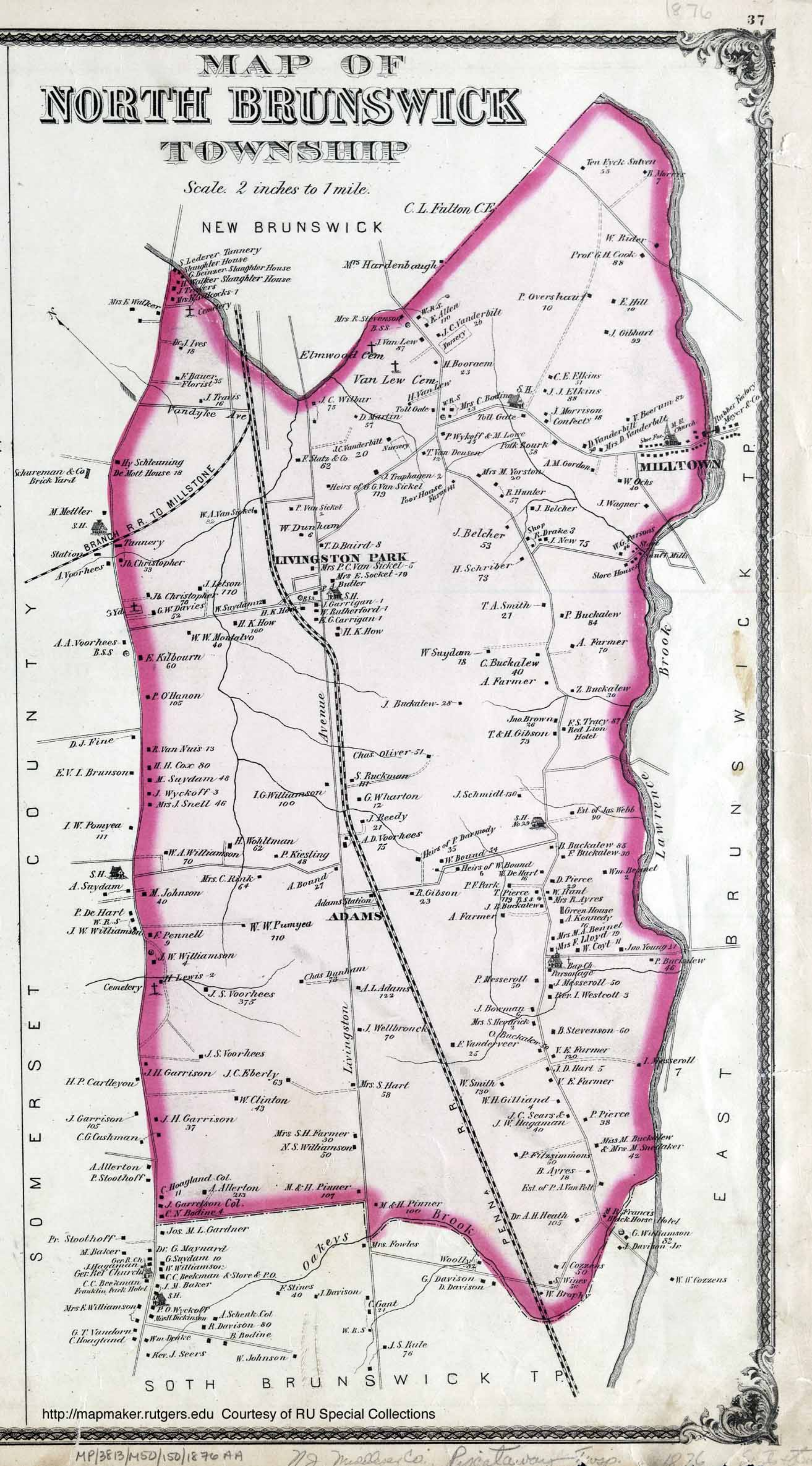 Map of North Brunswick, New Jersey, 1876. From the the collection The Changing Landscape of North Brunswick, map from Rutgers Special Collections; they indicate c. 1917 for the map date, but the map is marked 1876.